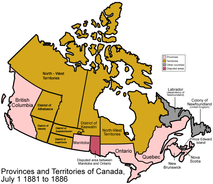 Territorial evolution of Canada 1882 saw the formation of the Provisional District of Saskatchewan, the Provisional District of Assiniboia, the Provisional District of Alberta and the Provisional District of Athabasca.